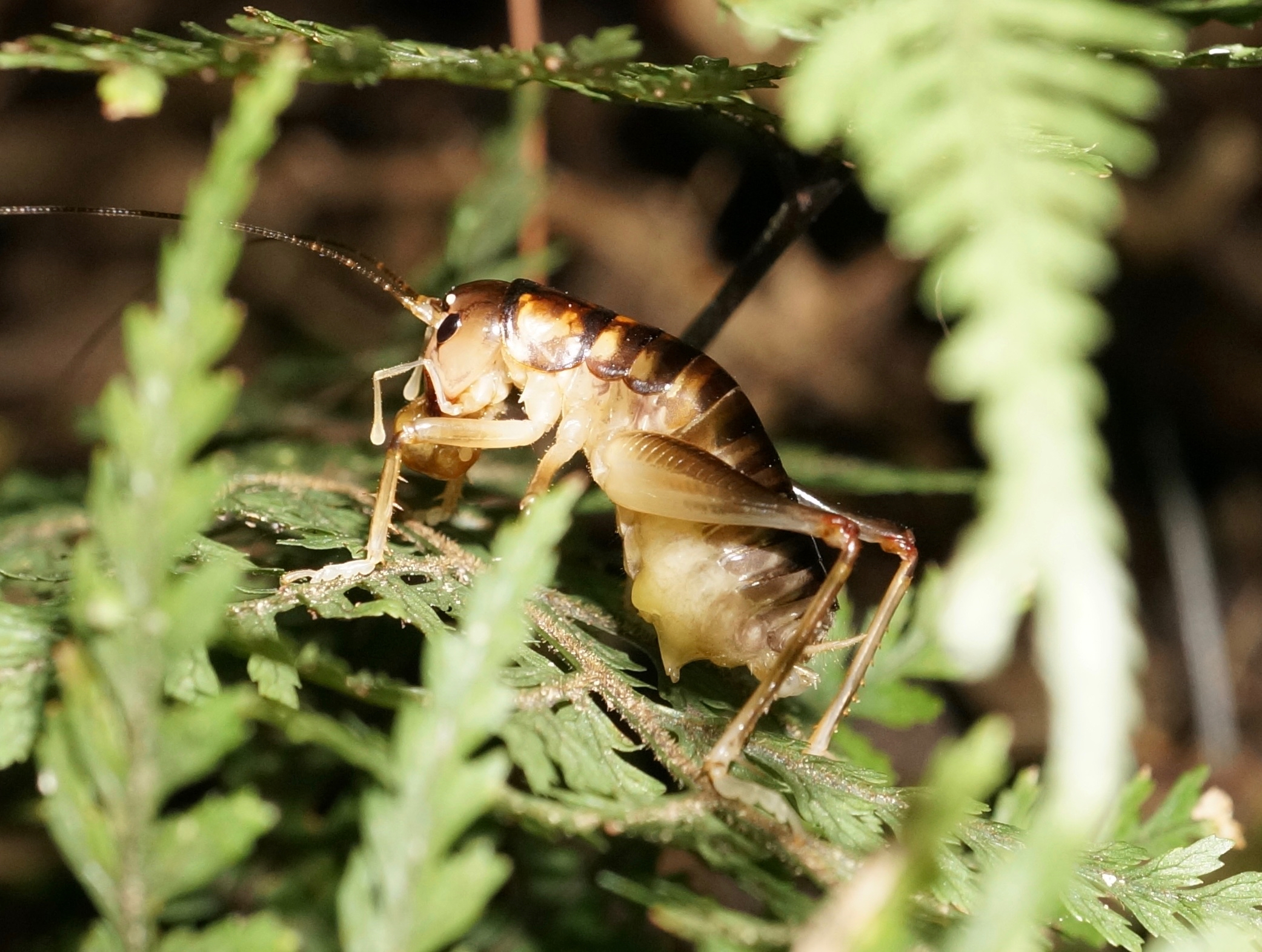 Hemiandrus pallitarsis, a ground wētā (cricket) in the family Anostostomatidae. This female is eating a nuptial gift which she has removed, after mating, from the appendage visible on her belly